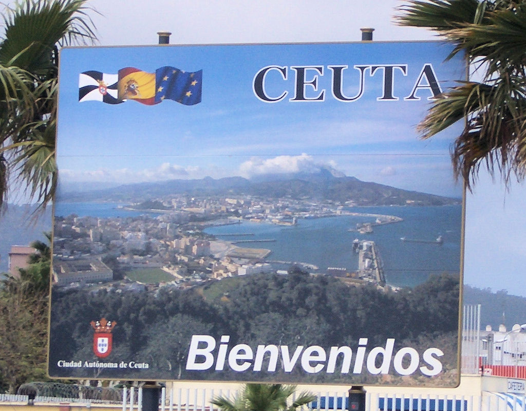 Welcome sign to Ceuta, Spain